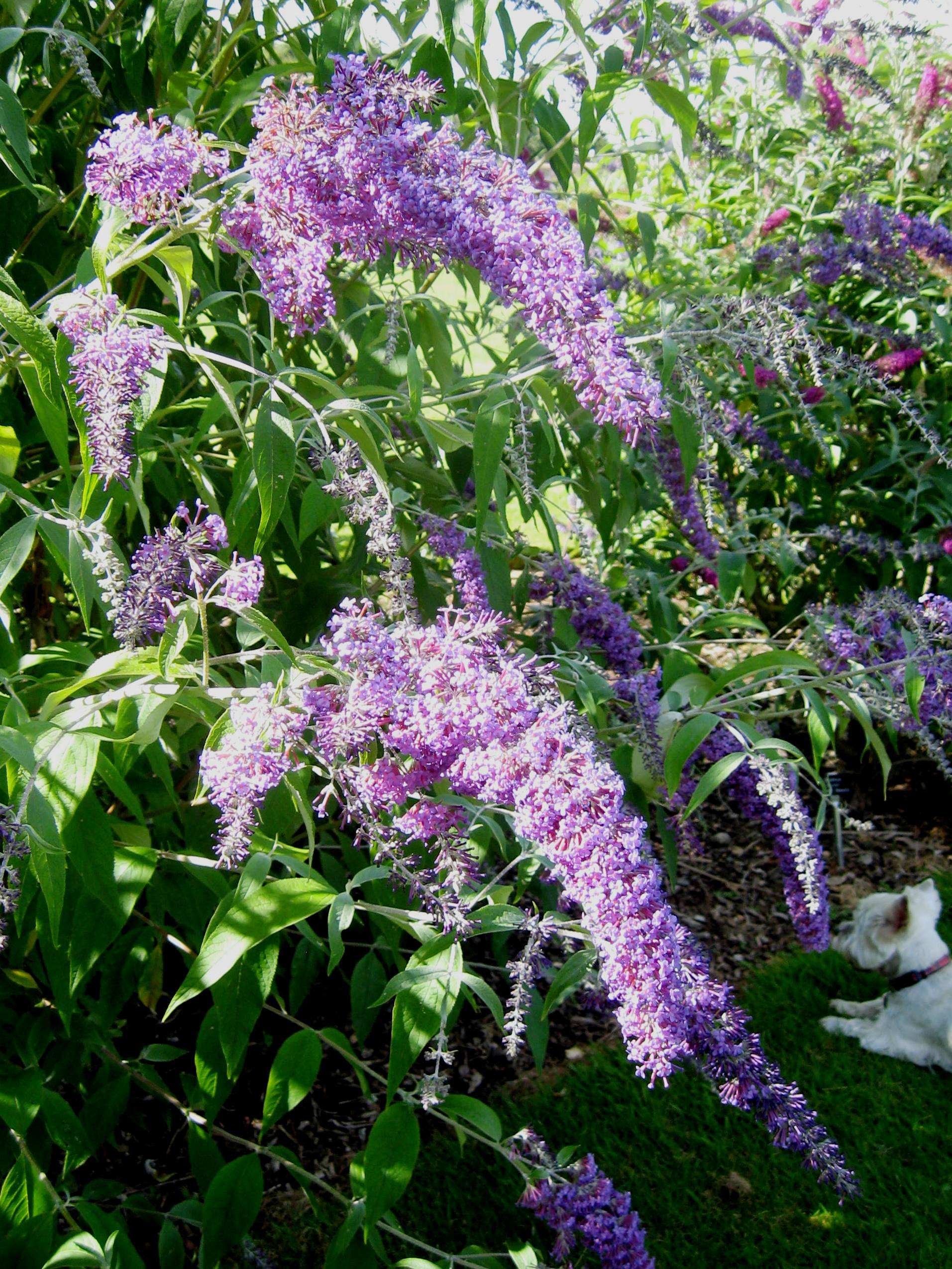 Photo of Buddleja cultivar 'West Hill' taken at Longstock Park, UK, August 2012